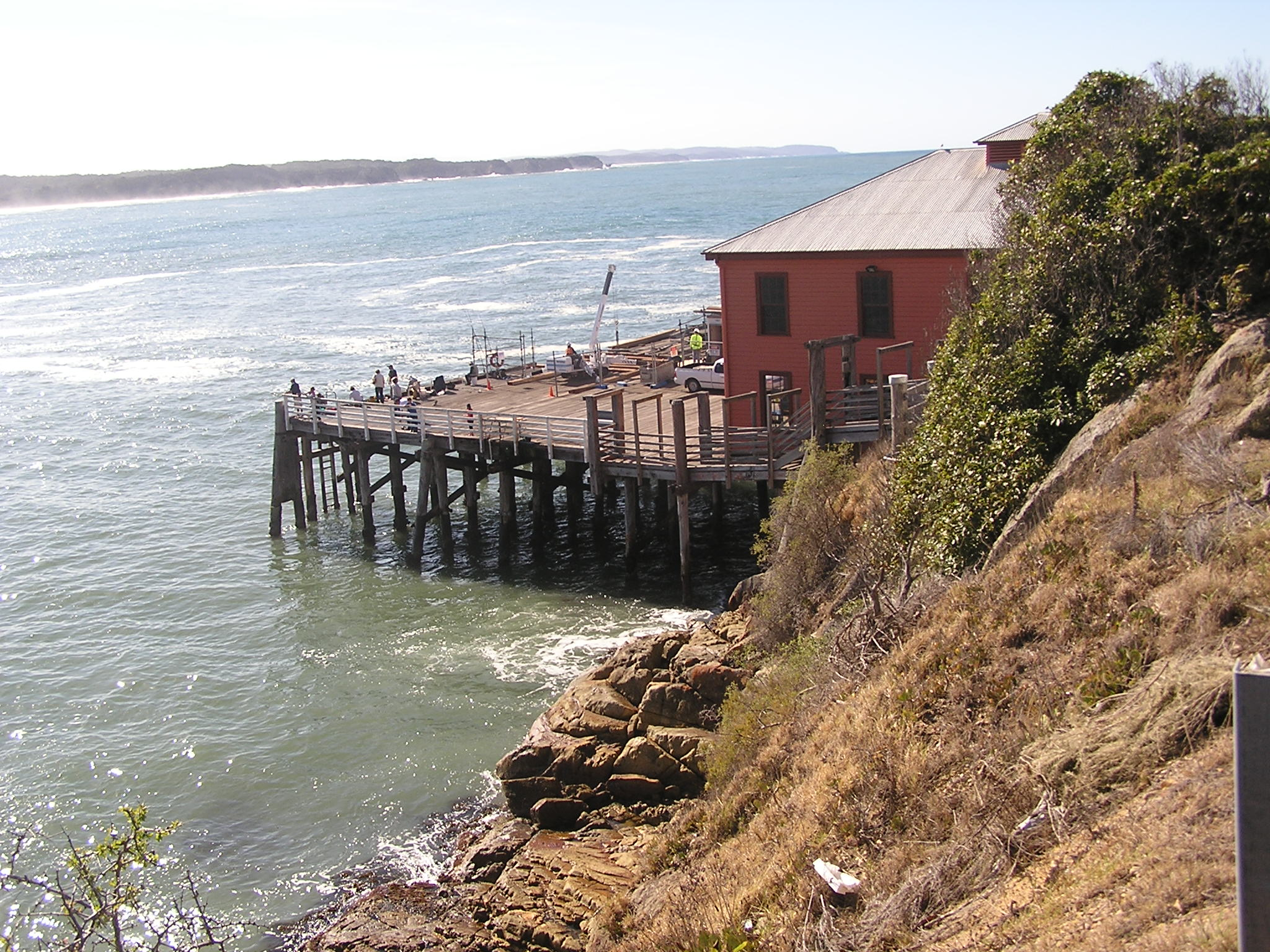 Jetty at Tathra, New South Wales used by the Illawarra Steam Navigation Company